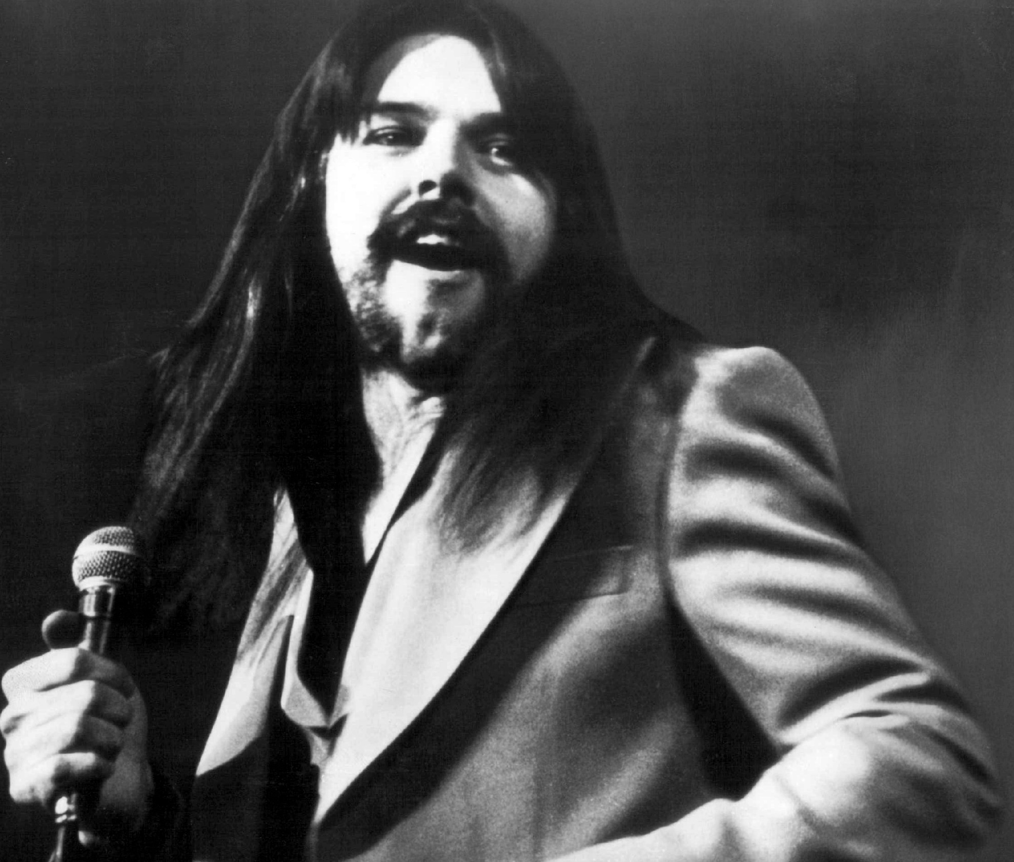 Photo of musician Bob Seger.